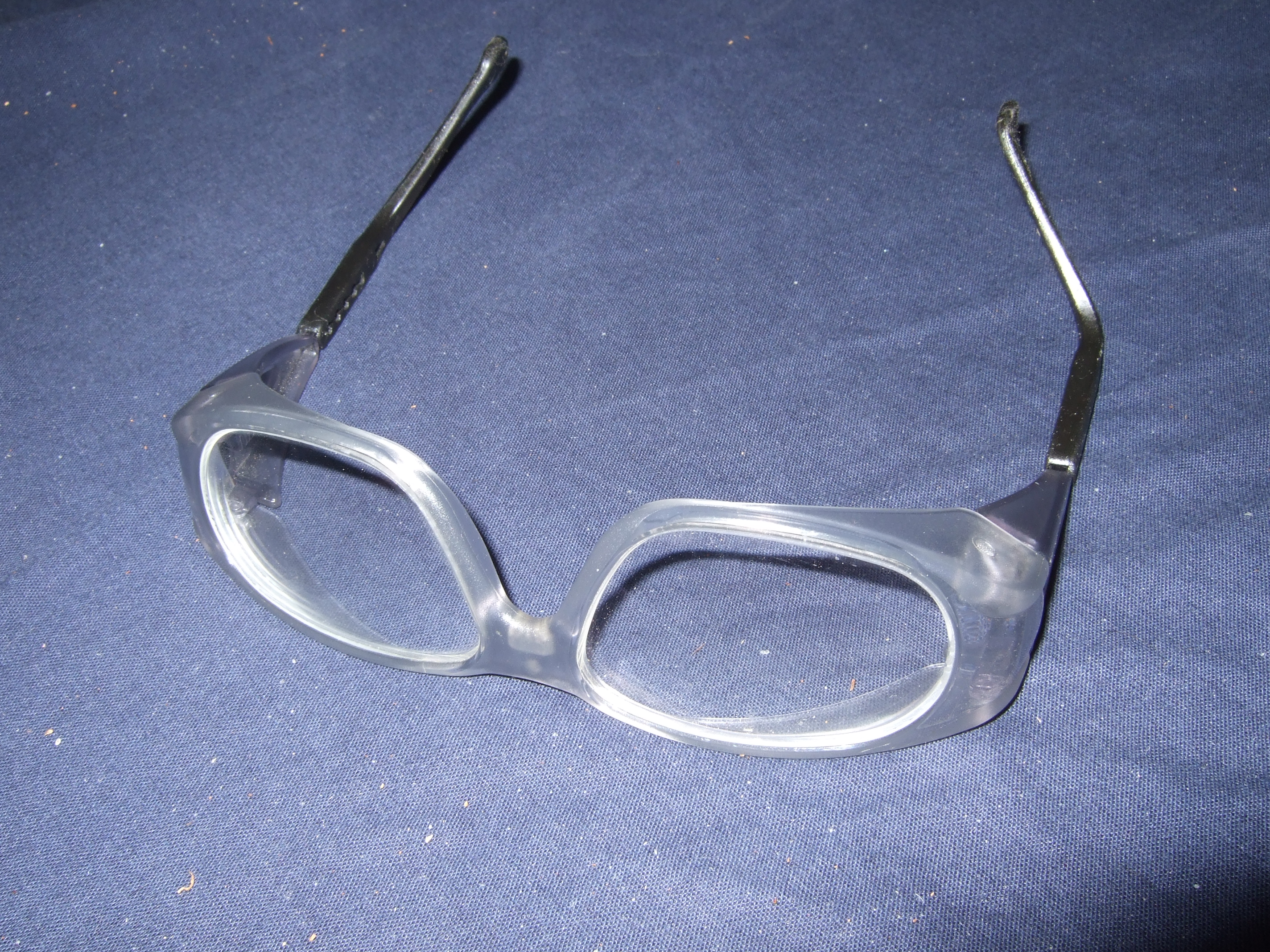 chemists protecting glasses